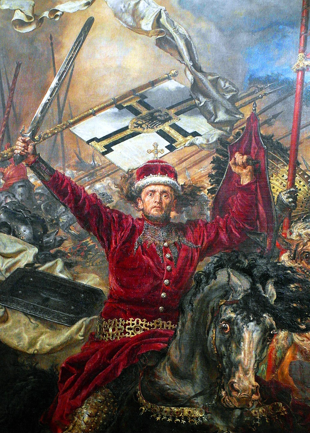 fragment of a canvas painting of Jan Matejko about the Battle of Grunvald